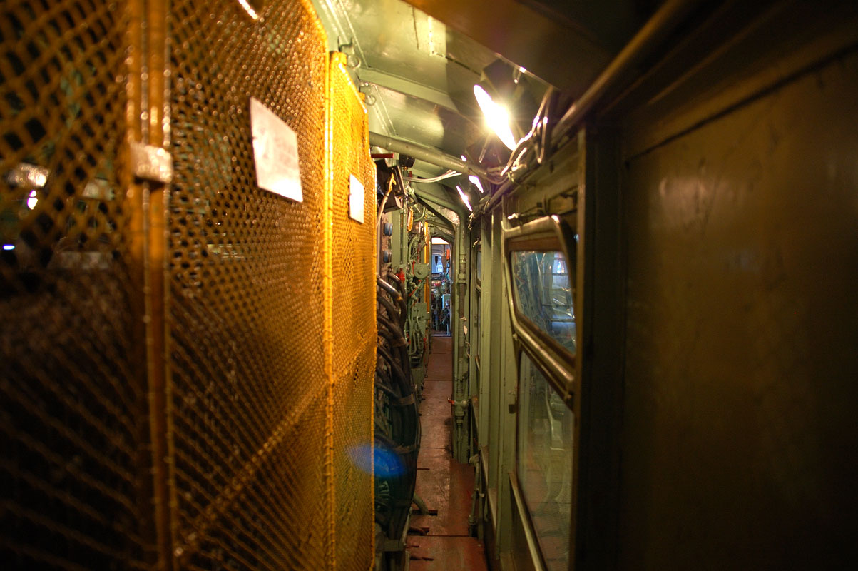 Corridore in the electric locomotive Skoda 53E (ChS2)